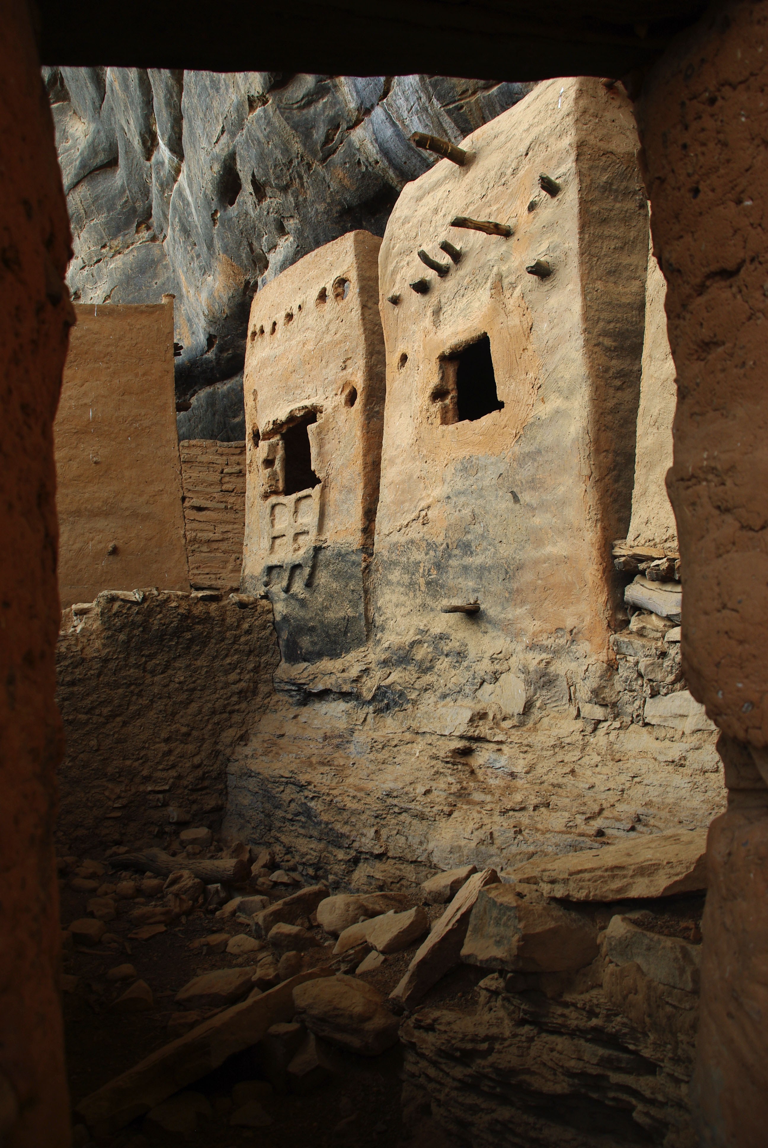 Tellem village (Teli) in the Bandiagara Escarpment, Mali